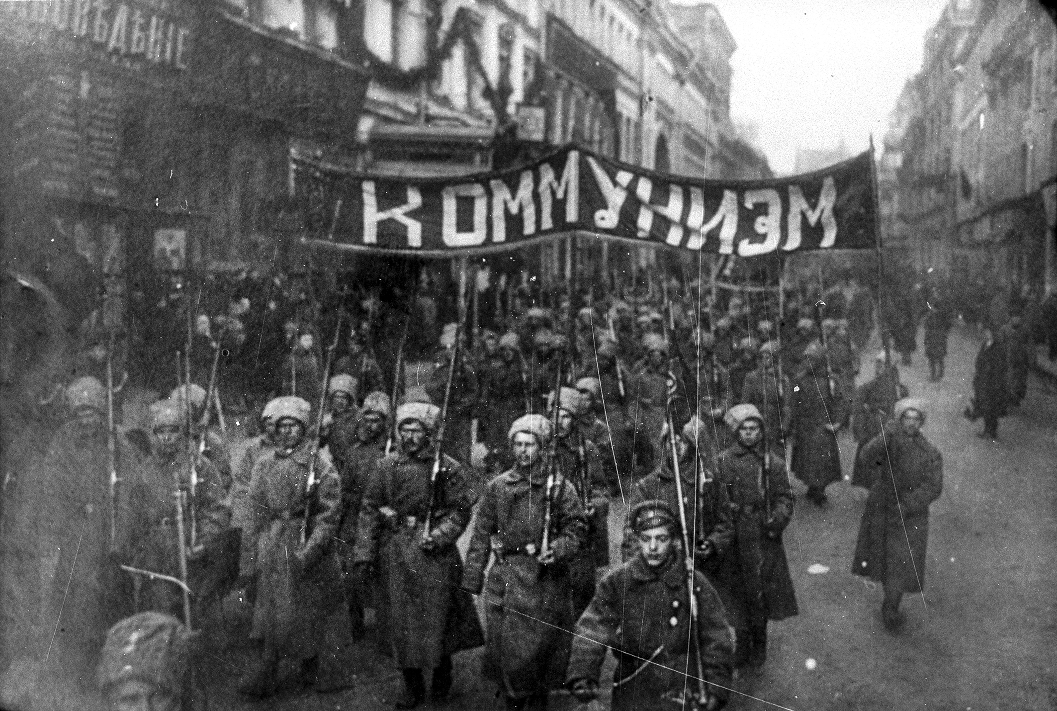 Armed soldiers carry a banner reading 'Communism', Nikolskaya street, Moscow, October 1917